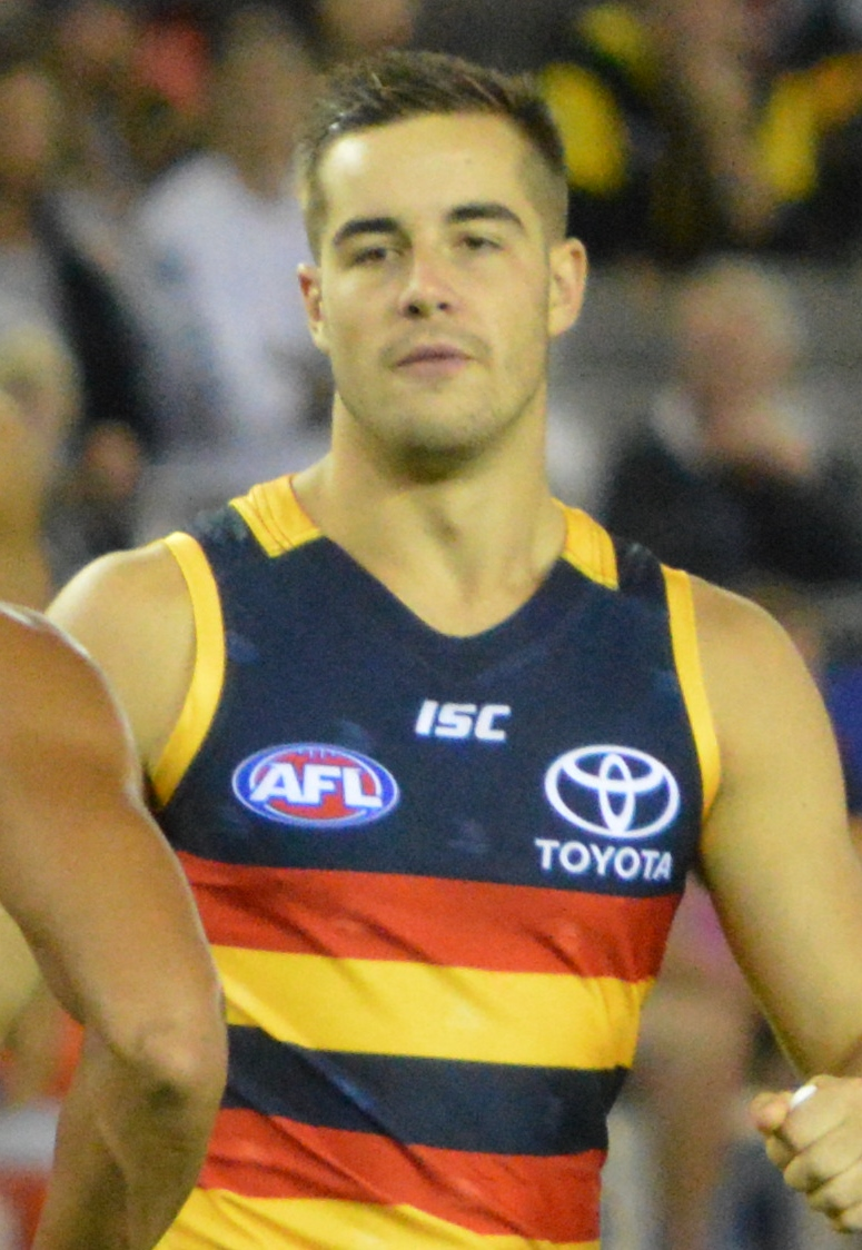 Myles Poholke during an AFL pre-season match against Richmond in February 2017